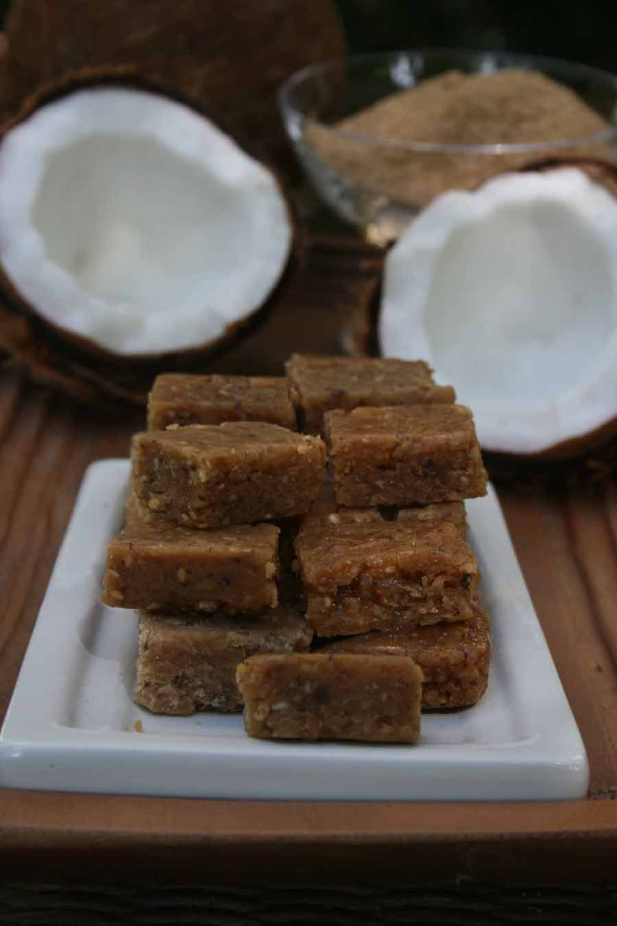 Marallo, aka Mampostial, Puerto Rican traditional candy made of coconut, brown sugar, sesame seeds and caramel.